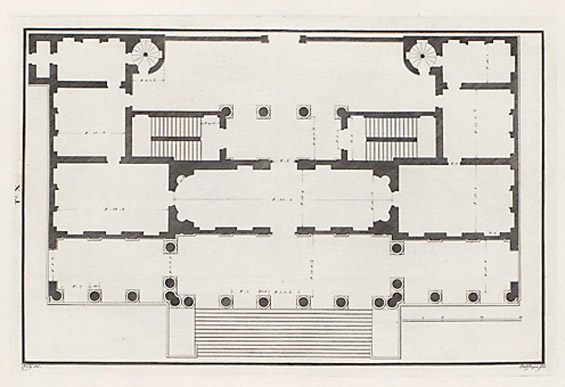 Palazzo Chiericati in Vicenza, by Andrea Palladio. Drawing by Ottavio Bertotti Scamozzi, 1776.